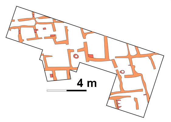 Shortugai, hill 2, level 2; the excavated parts of the settlement; about 2200 BC